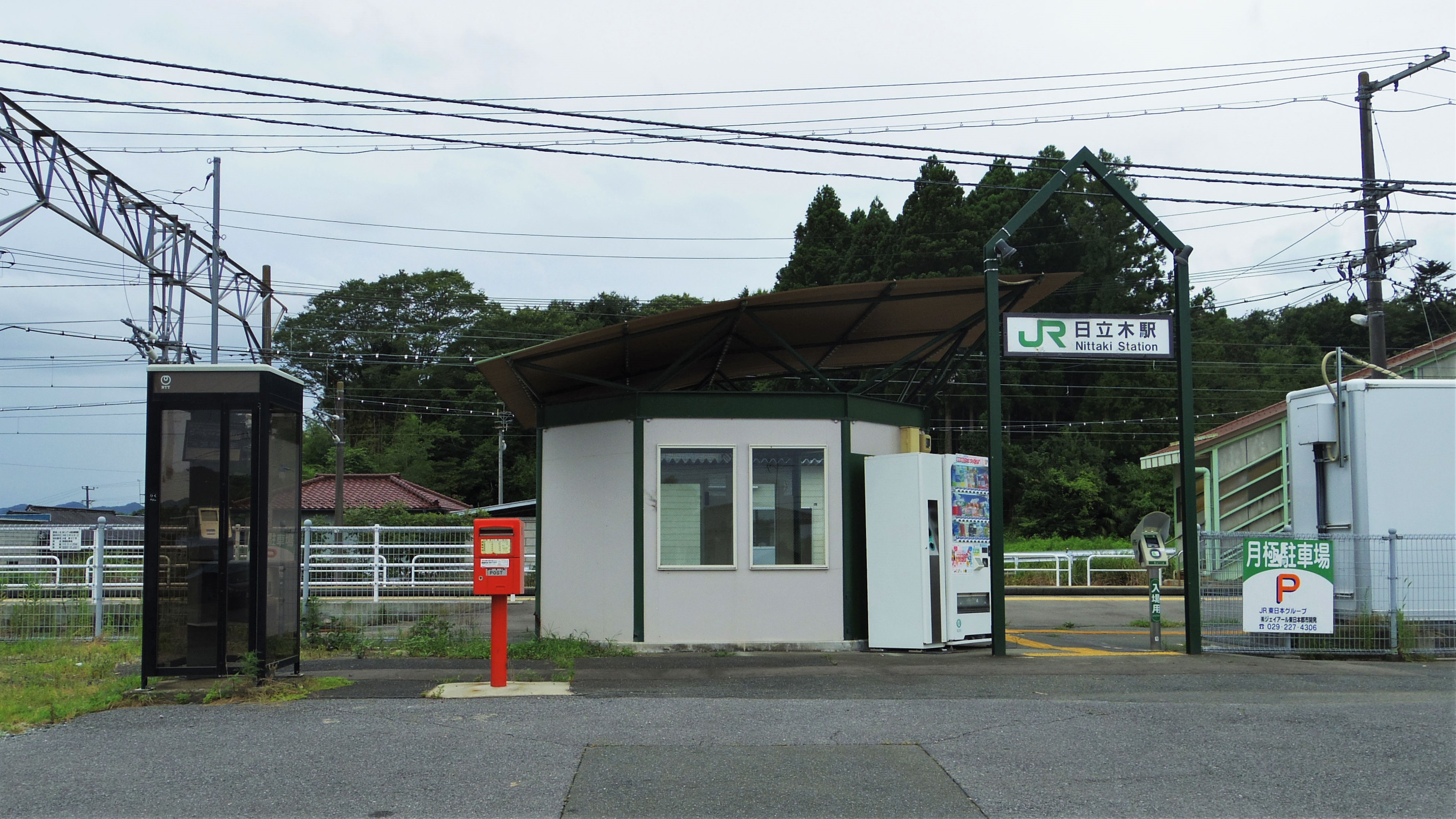 The entrance of Nittaki Station on the Joban Line in Fukushima Prefecture, Japan